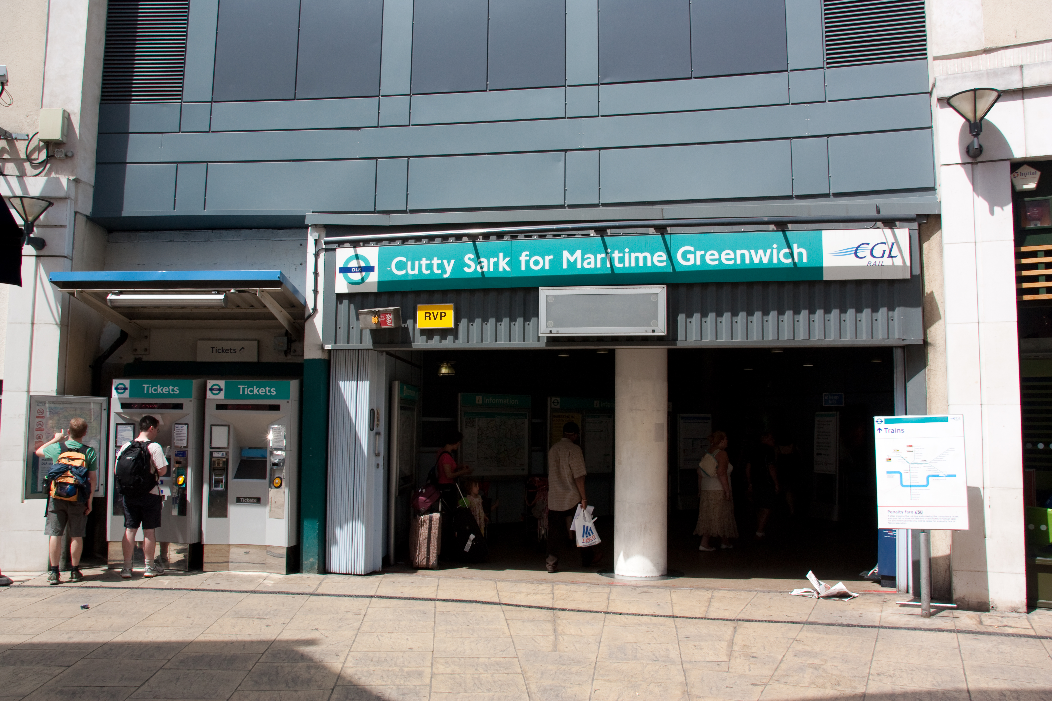 Station metro Cutty Sarks, DLR, Londres, UK